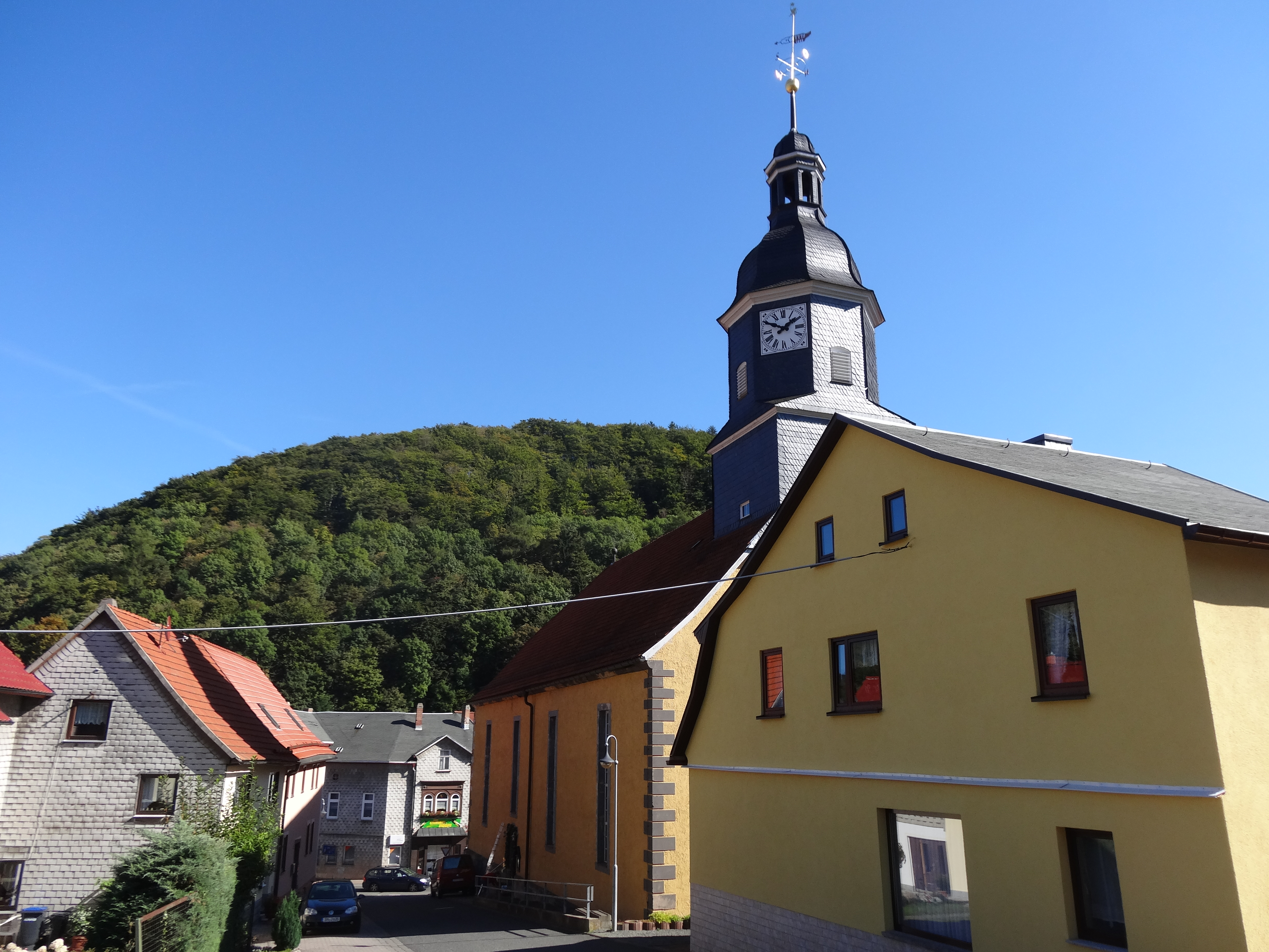 Hessian church in Kleinschmalkalden, Thuringia, Germany